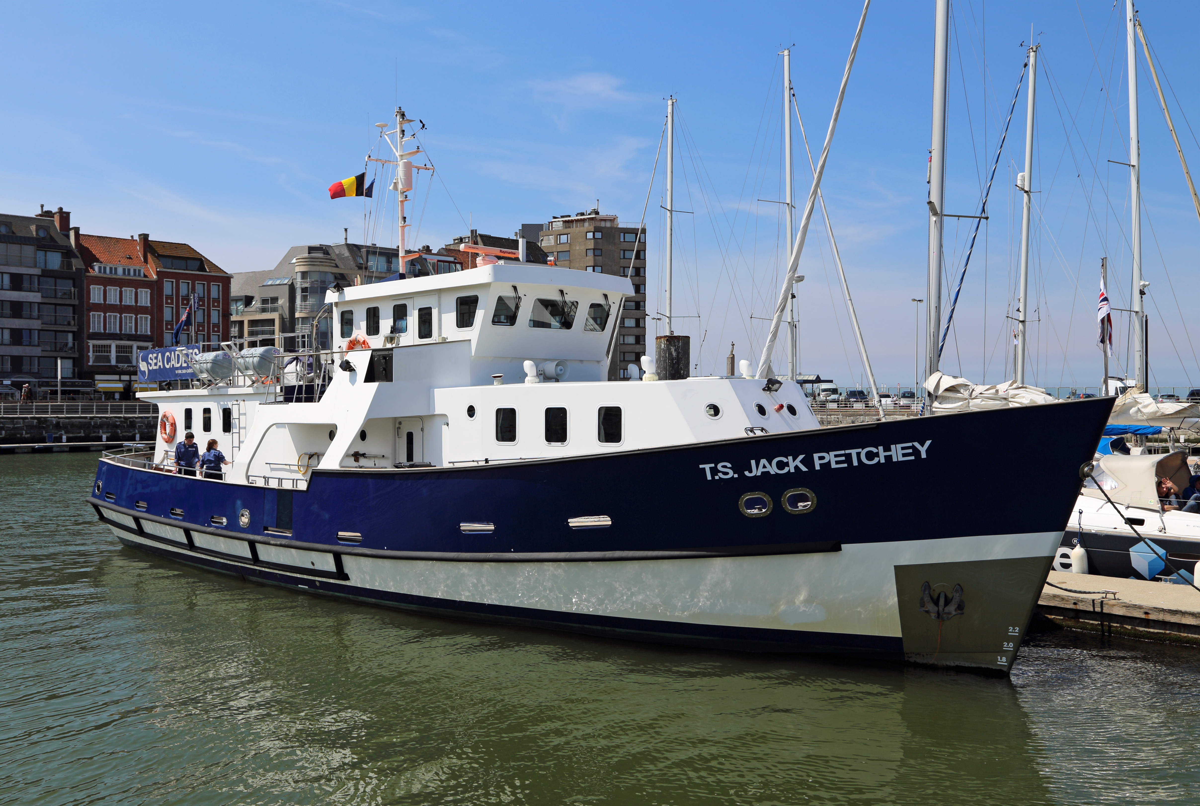 British training ship T.S. Jack Petchey in the port of Ostend (Belgium)